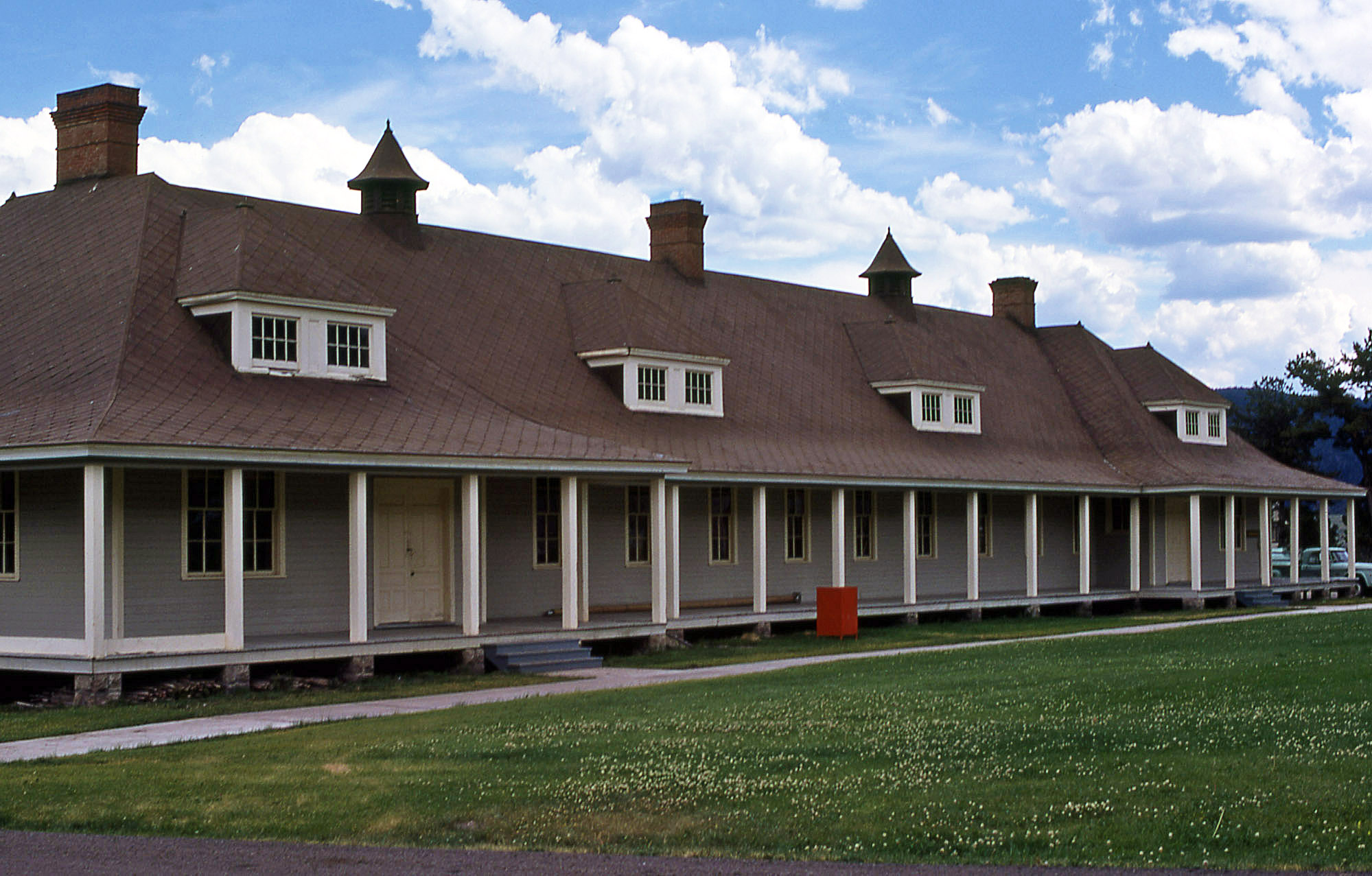 Fort Yellowstone Cavarly Barracks, Yellowstone National Park, 1974